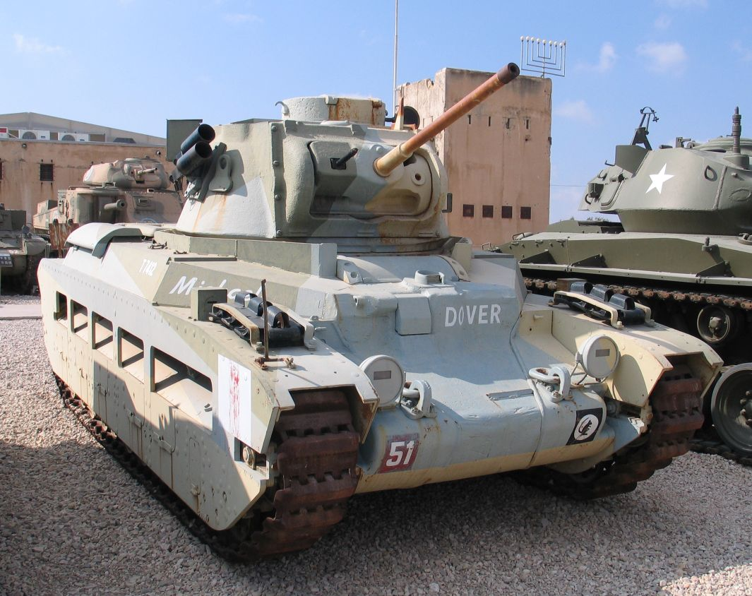 Description: Infantry tank Mk II Matilda in Yad la-Shiryon Museum, Israel. Source: Photo by me, User:Bukvoed